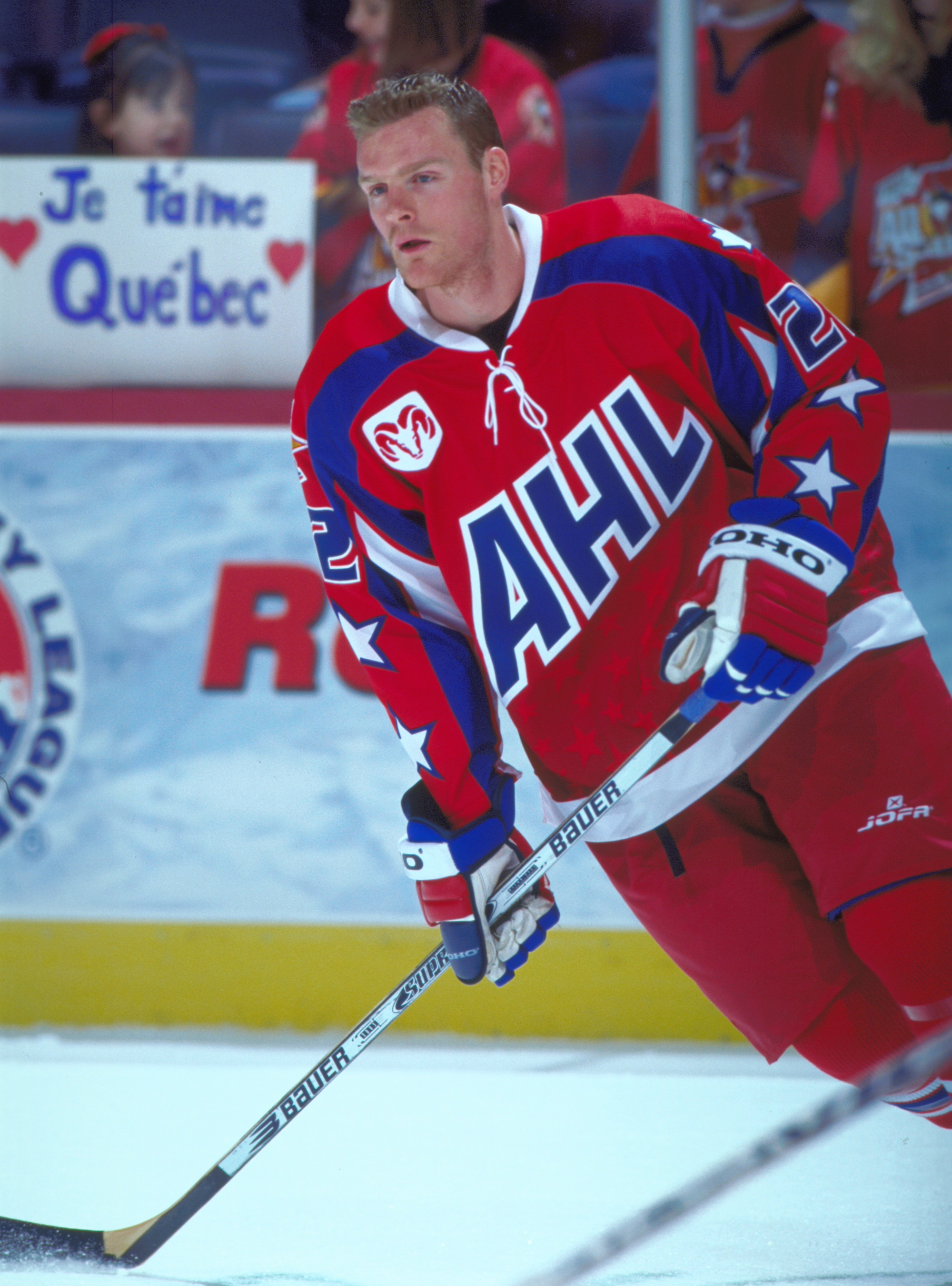 hhof0353